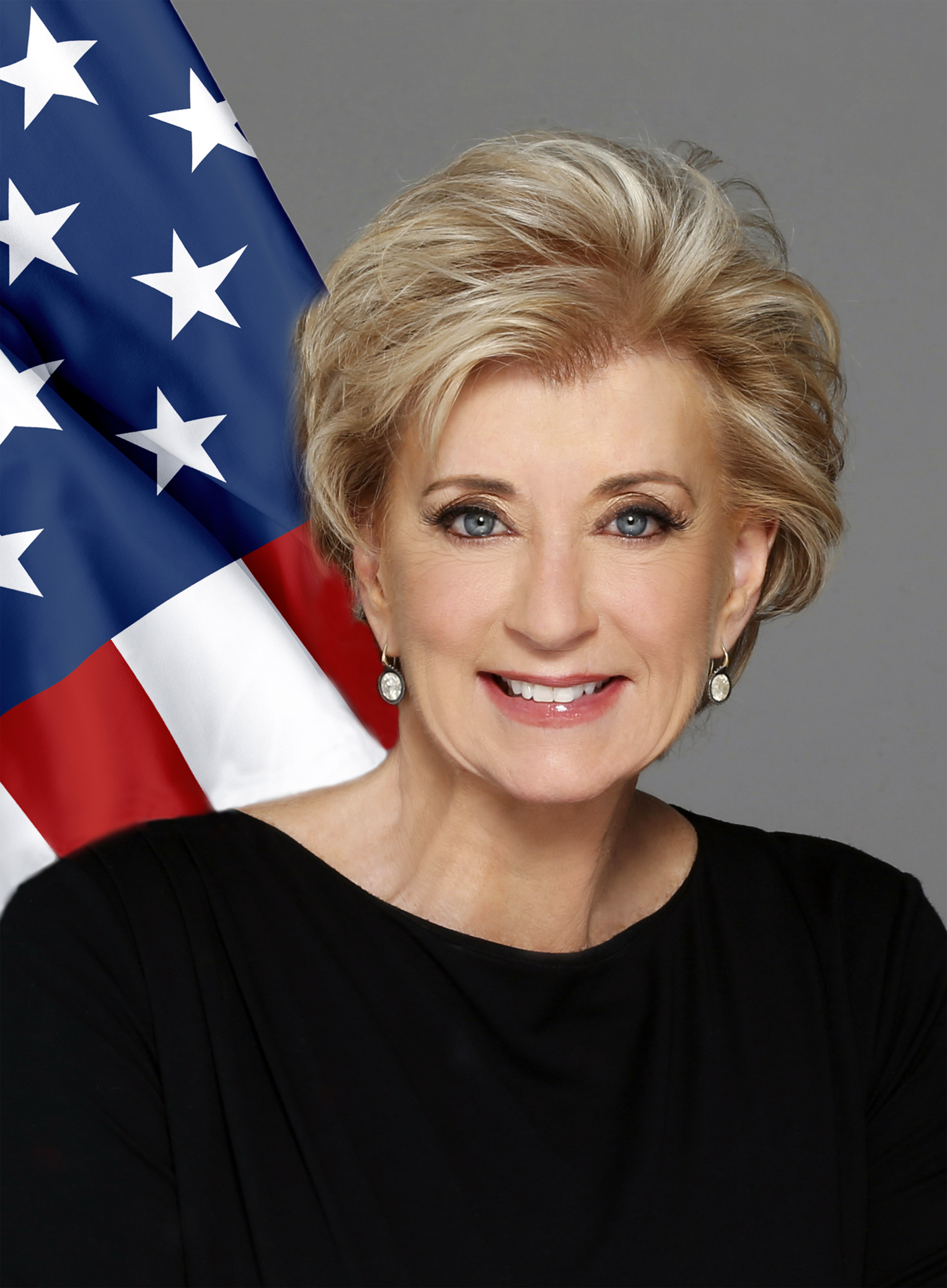 Linda McMahon's official photo as the Administrator of the Small Business Administration.